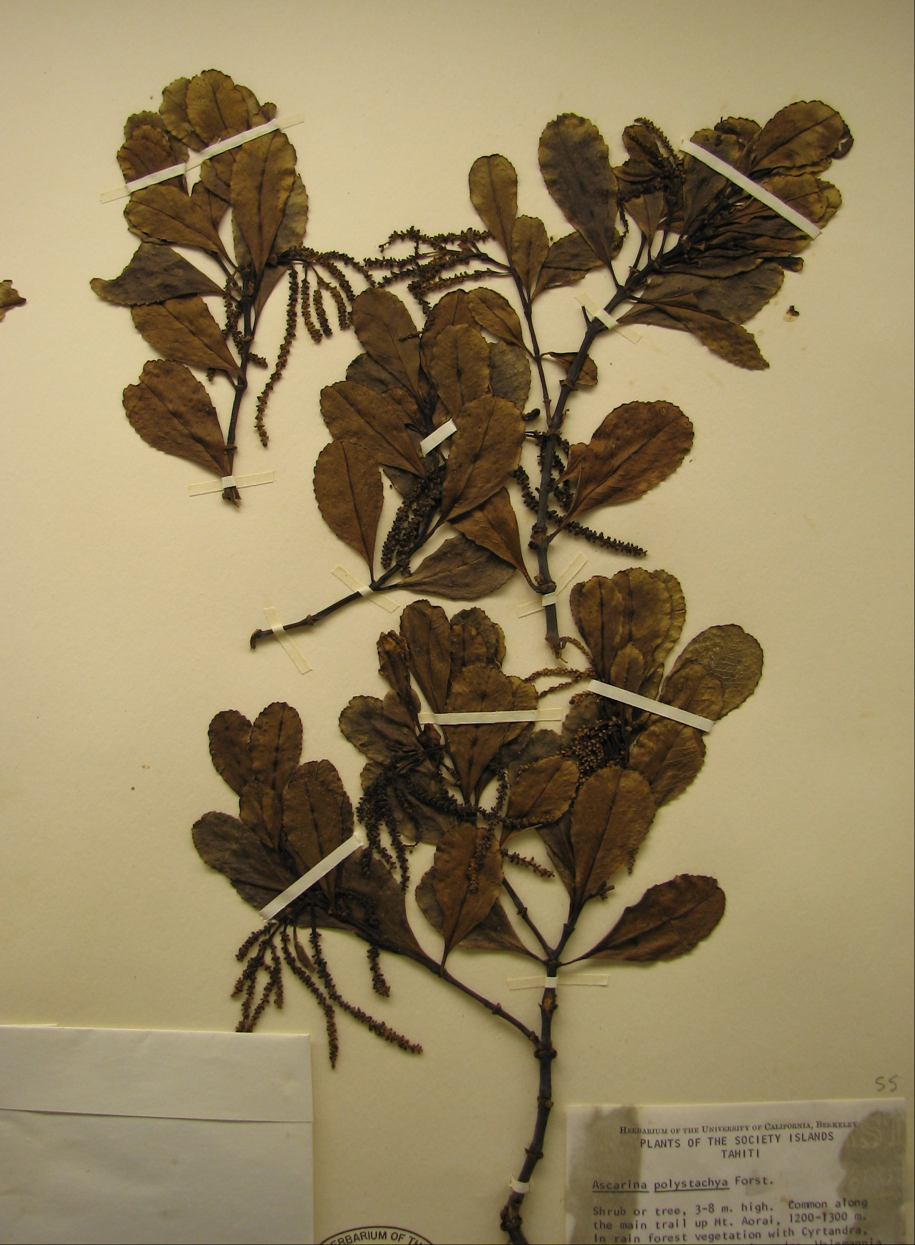 Ascarina polystachya Tahiti, shrub or tree collected 1 September 1970 George W. Gillett 2241 "common along main trail up Mt. Aorai 1200-1300 m; in rainforest vegetation